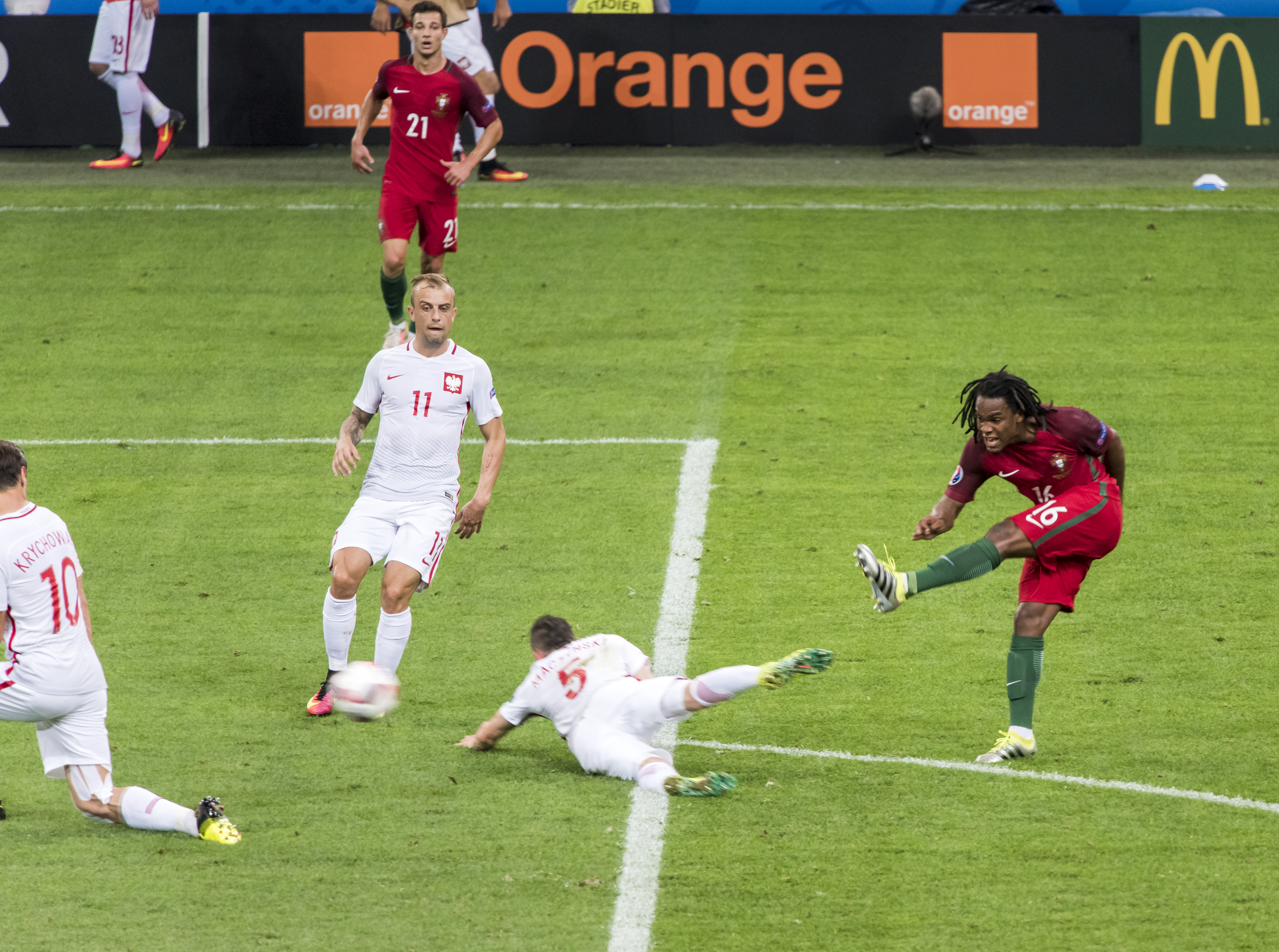 renato sanches playing for portugal against poland in the UEFA Euro 2016